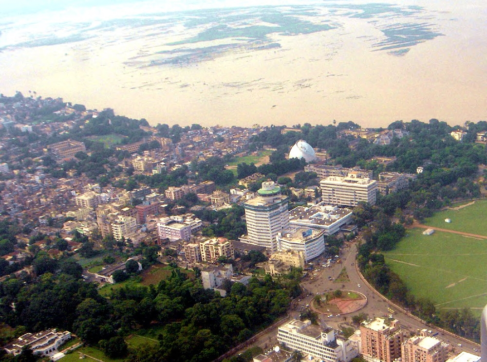 Aerial view of Patna. In the background, the damage to crops by the flooded ganges river can be seen. You can also see the 'Golghar' and the revolving restaurant